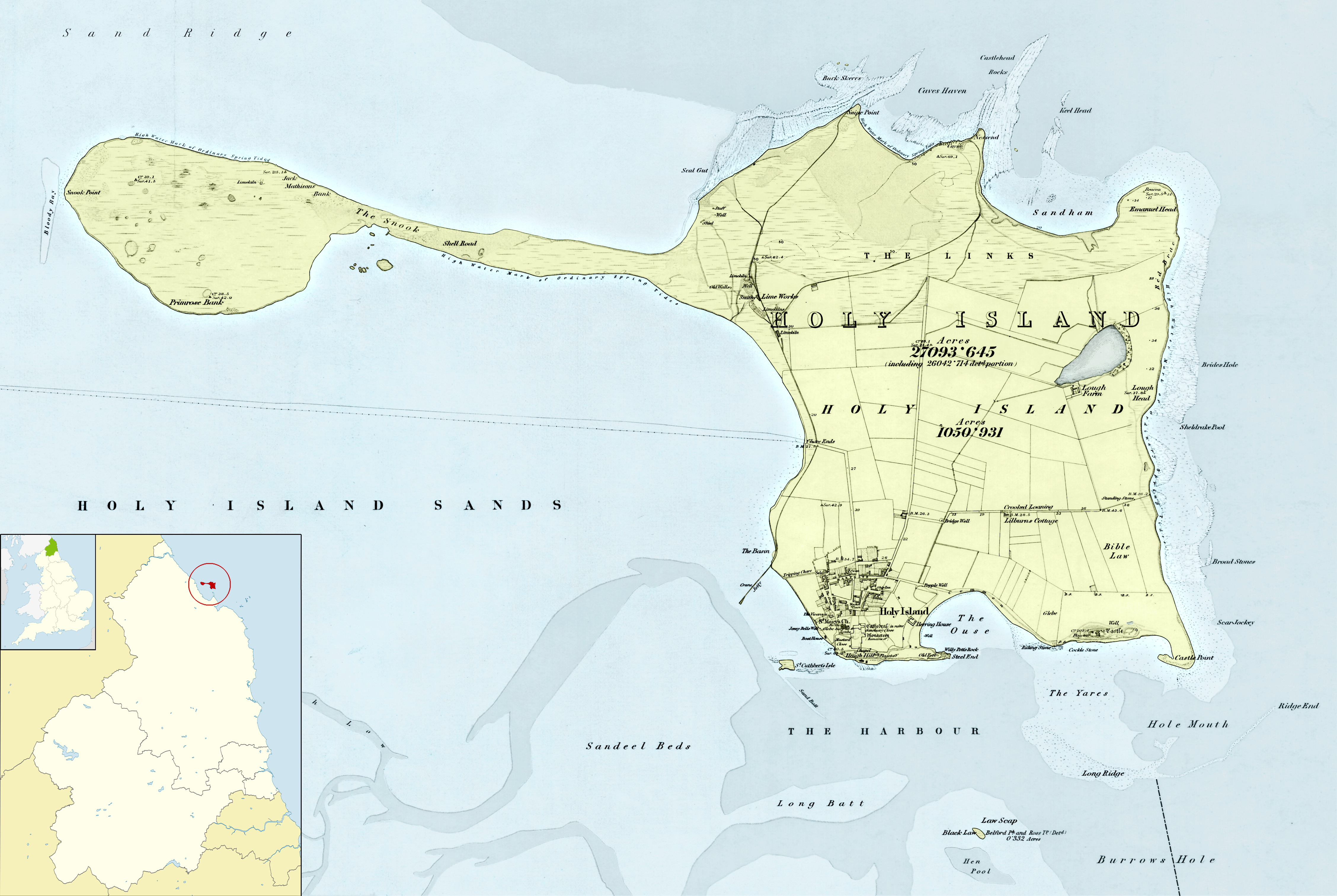 Map section after a nautical map of the British Navy from 1866